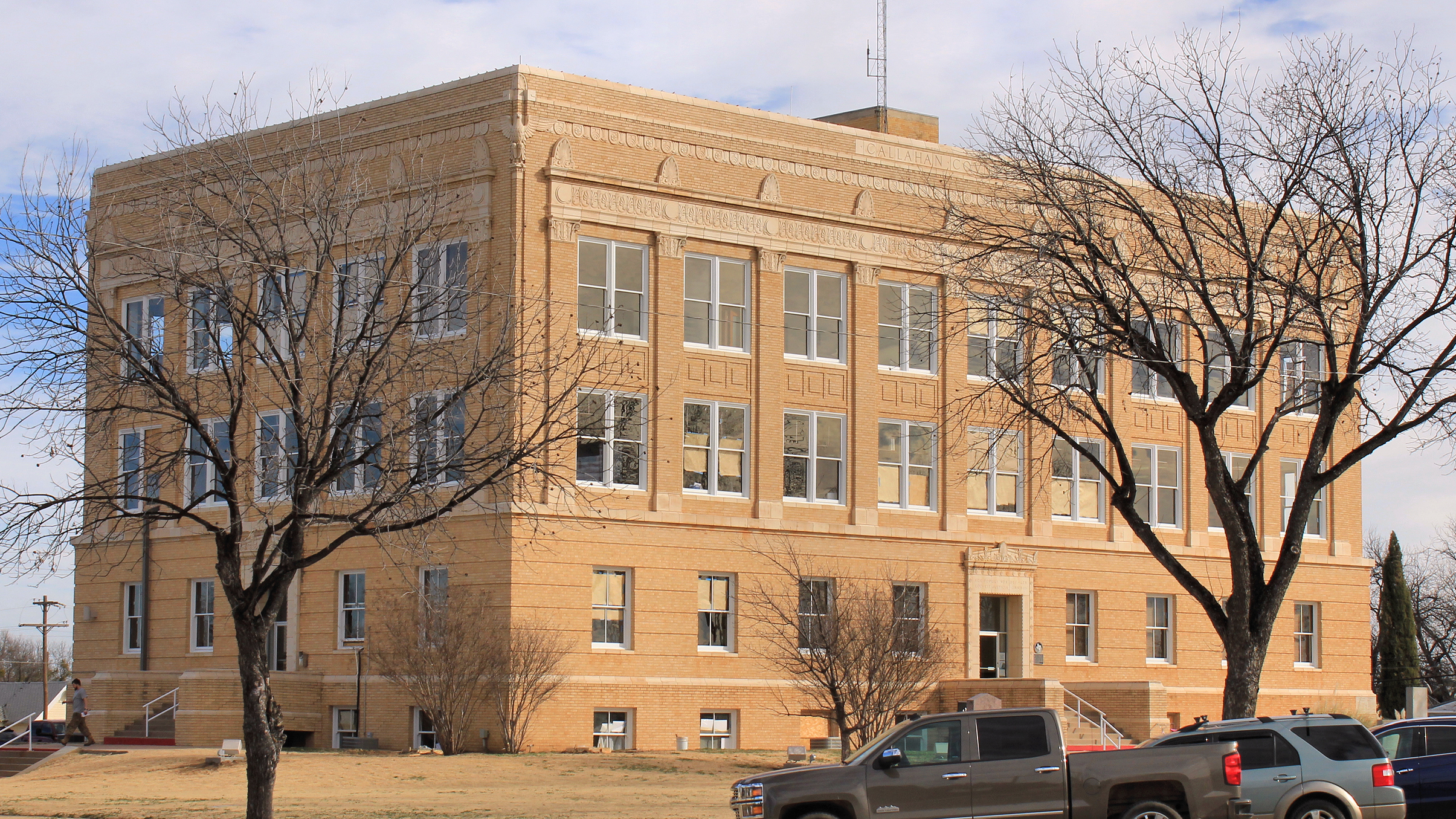 The Callahan County, Texas Courthouse in Baird, Texas. The Classical Revival style courthouse was built in 1928 and designated a Recorded Texas Historic Landmark in 2003.